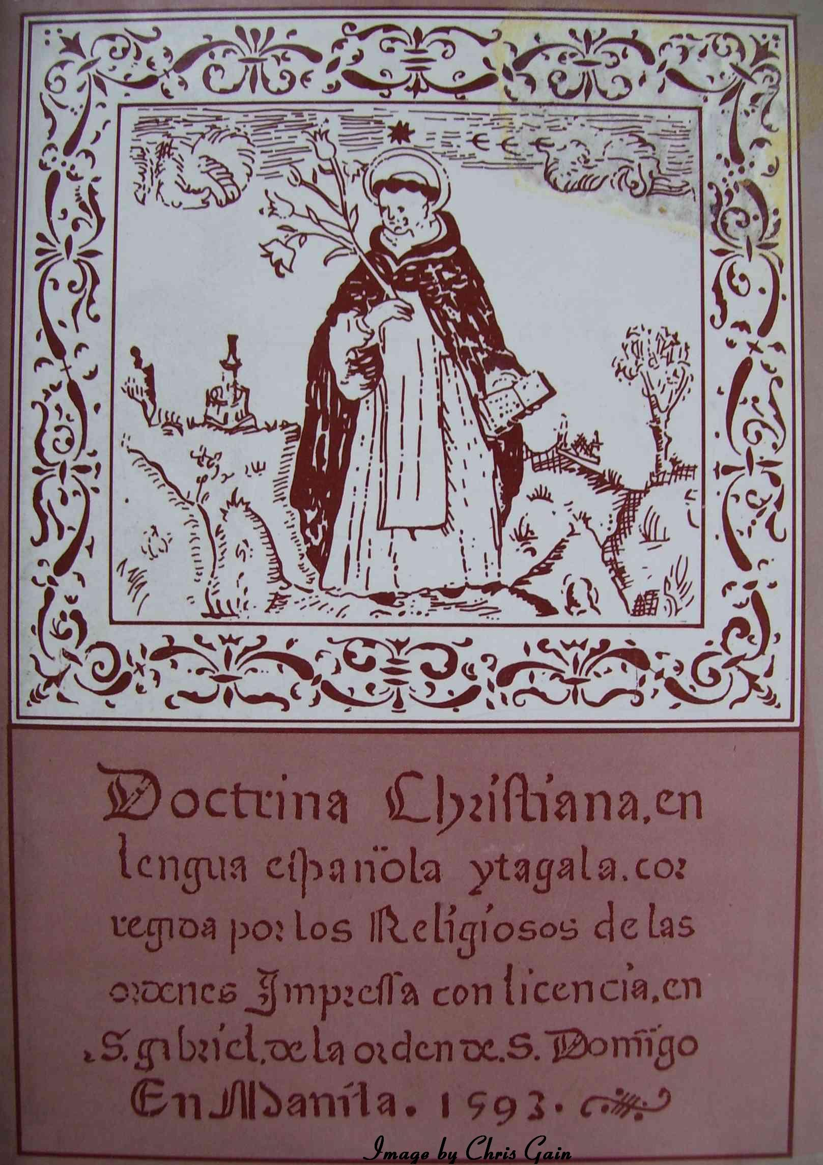 Title page of Doctrina Christiana Espanola y Tagala, Manila, 1593